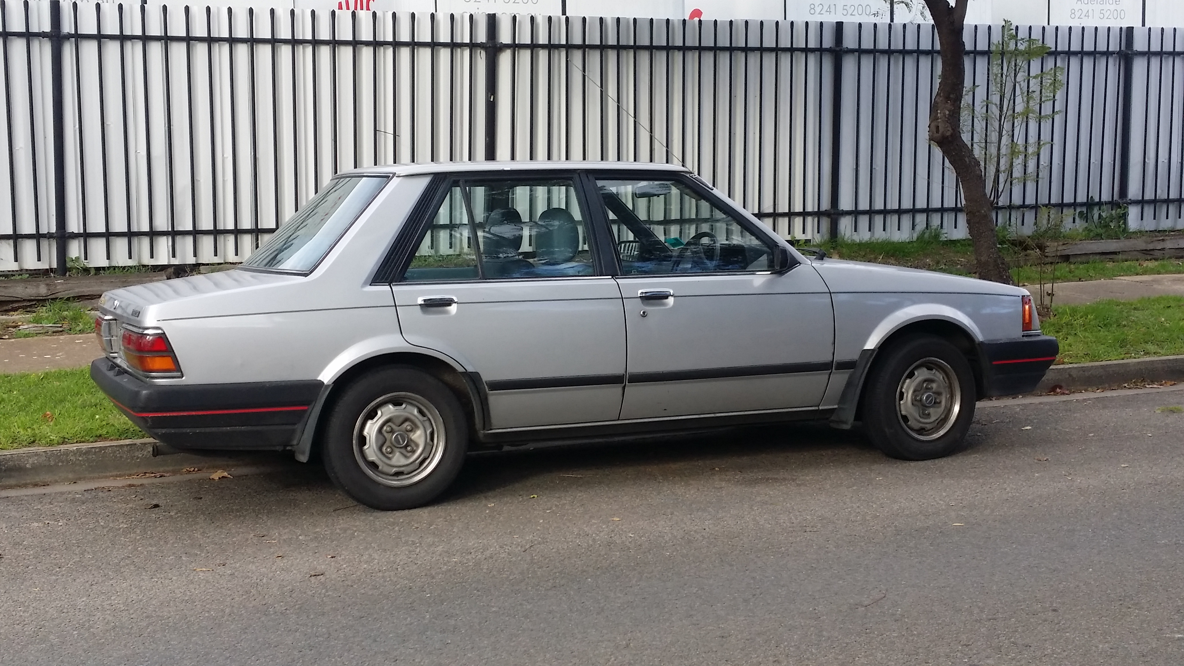 1982–1985 Mazda 323 (BD Series 2) Super Deluxe sedan.